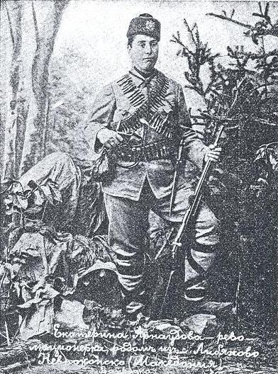 Portrait of SMAC member Ekaterina Arnaudova from Libyahovo, today Ilinden, Bulgaria